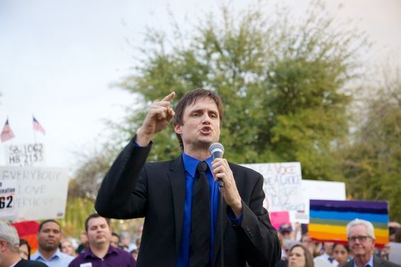 Representative Sherwood speaking in support of LGBT rights at a rally opposing Arizona SB1062 on February 20, 2015.